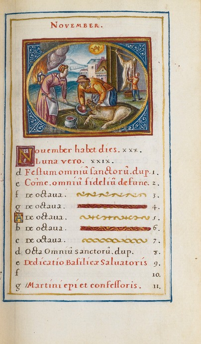 November page of a calendar inside the Officium Beatae Mariae written by Claude Ruffin, Paris, 1603.